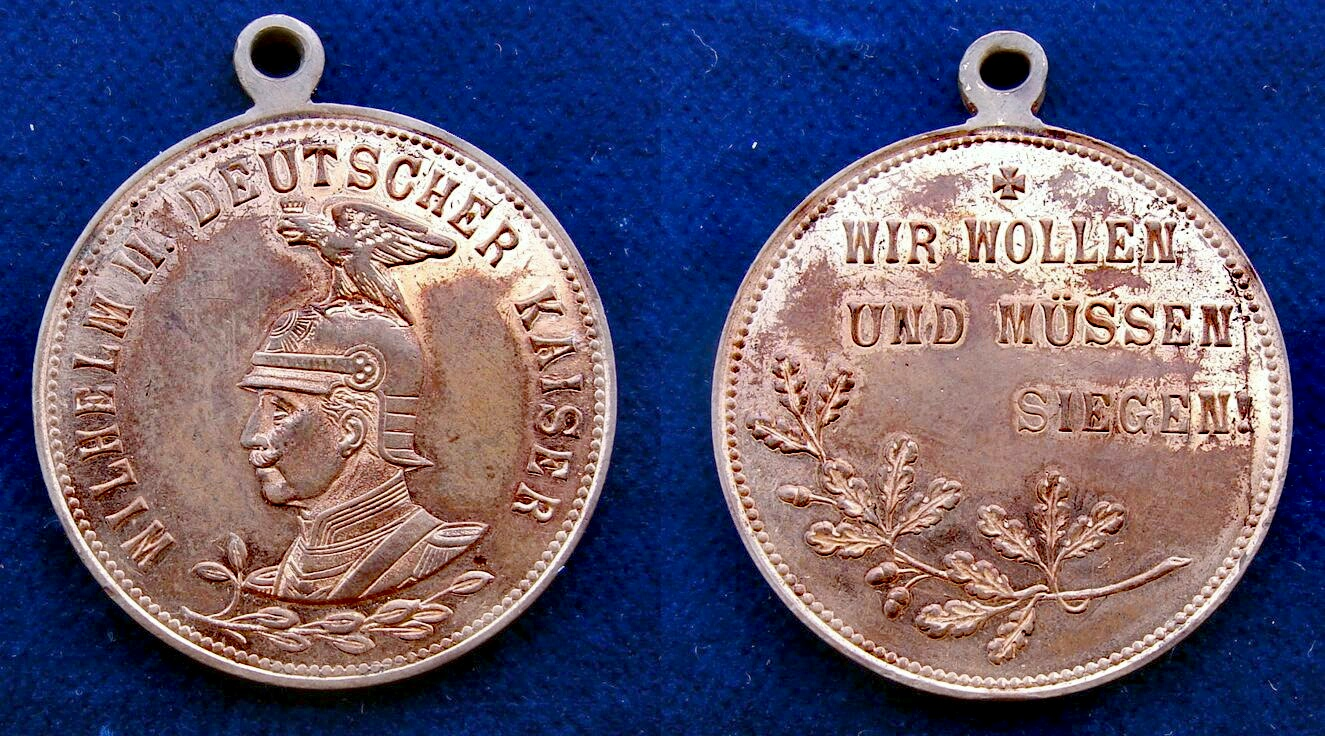 Wilhelm II, Deutscher Kaiser, King of Prussia, 1888-1918 D. 31 mm with original loop. Uniformed bust l., curved above: "WILHELM II. DEUTSCHER KAISER"/ 3 lines below Iron Cross: "WIR WOLLEN UND MÜSSEN SIEGEN !". (This is the final sentence of a speech of the Emperor at the headquarters in Koblenz, Germany, in August 1914: "We want to win and we must win!") . Oak branch below. Condition: EXTREMELY FINE. No hidden problems.